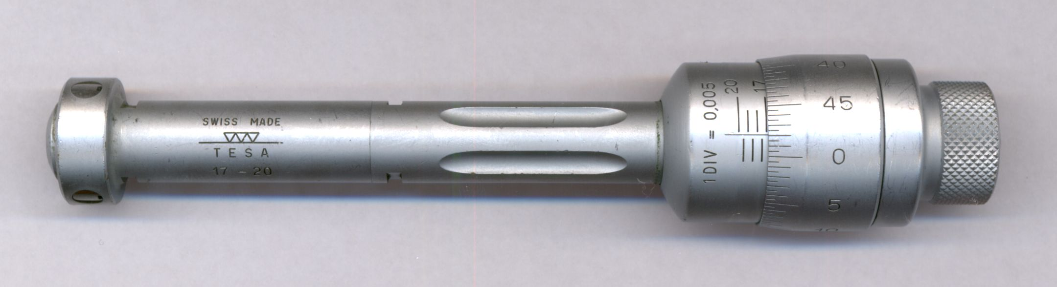 3 point inner micrometer 17-20 mm (Tesa)